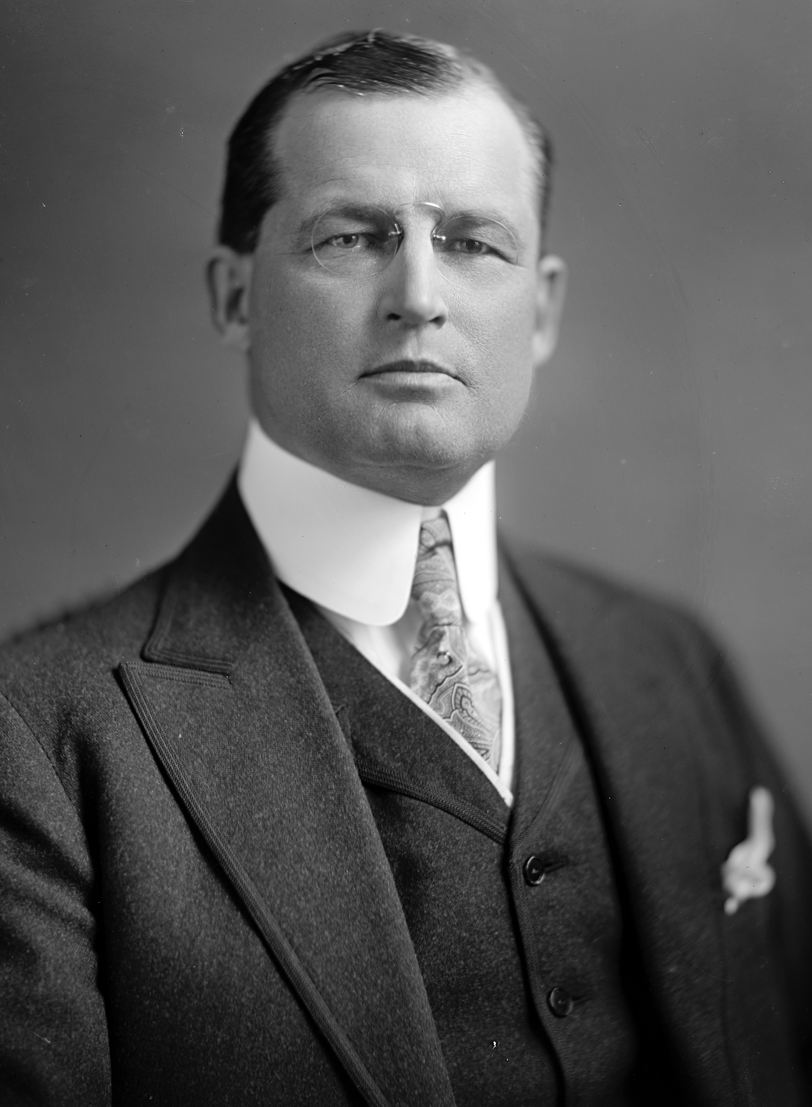 Clarence B. Miller, US Representative from Minnesota